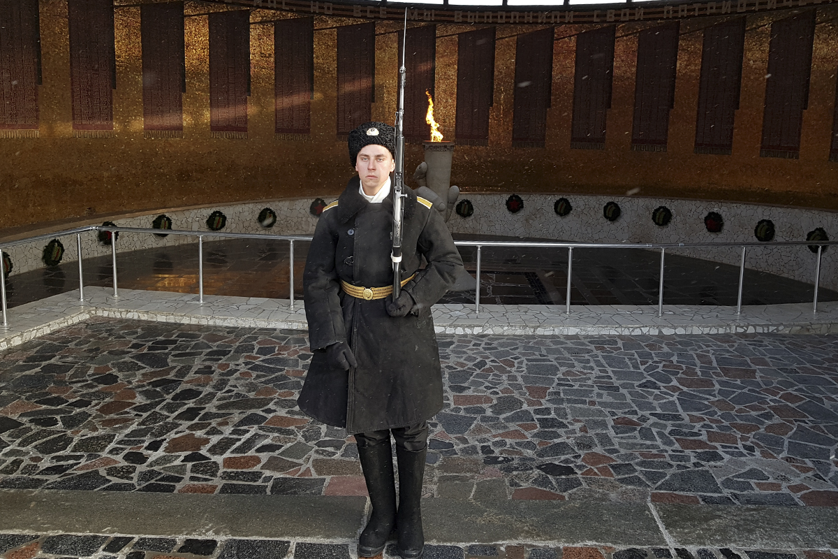 50th Anniversary of Silent Drill Platoon, Southern MD